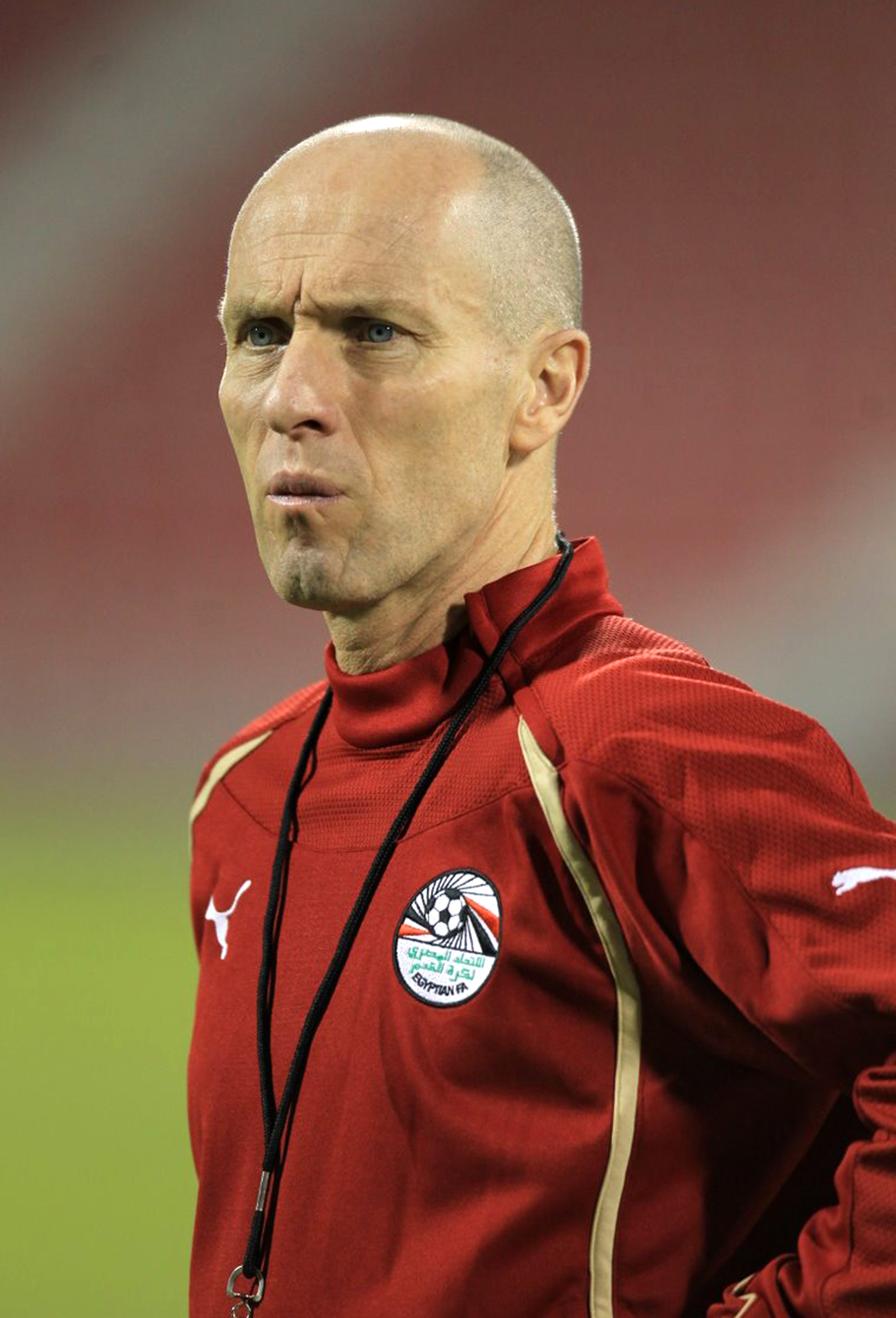 Egypt national team's American coach Bob Bradley during his team's training session at the ASPIRE Academy.